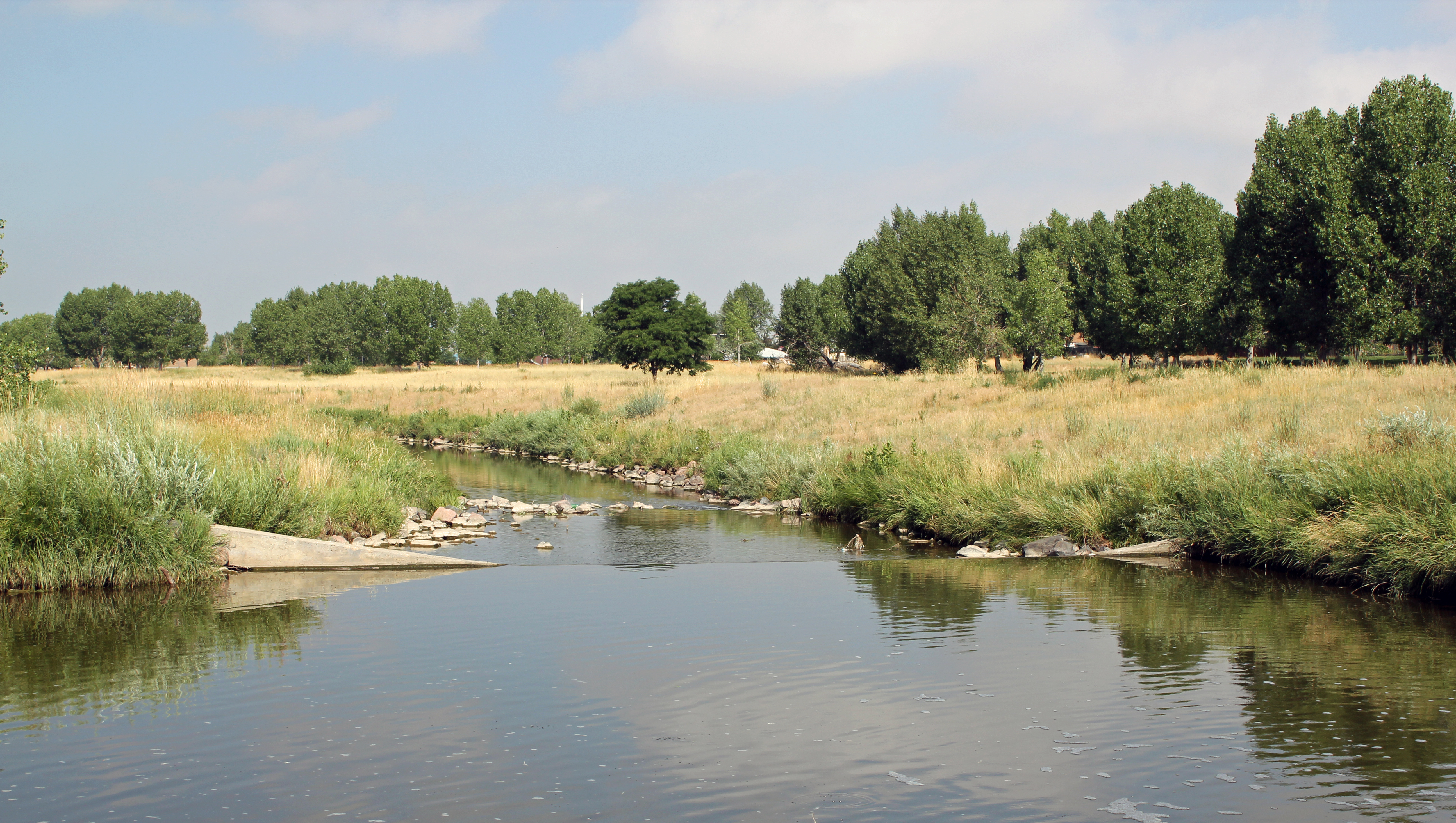 Sand Creek in Aurora, Colorado. The location is in Sand Creek Park near a series of small barrages north of the Anschutz Medical Campus in Aurora, Colorado.